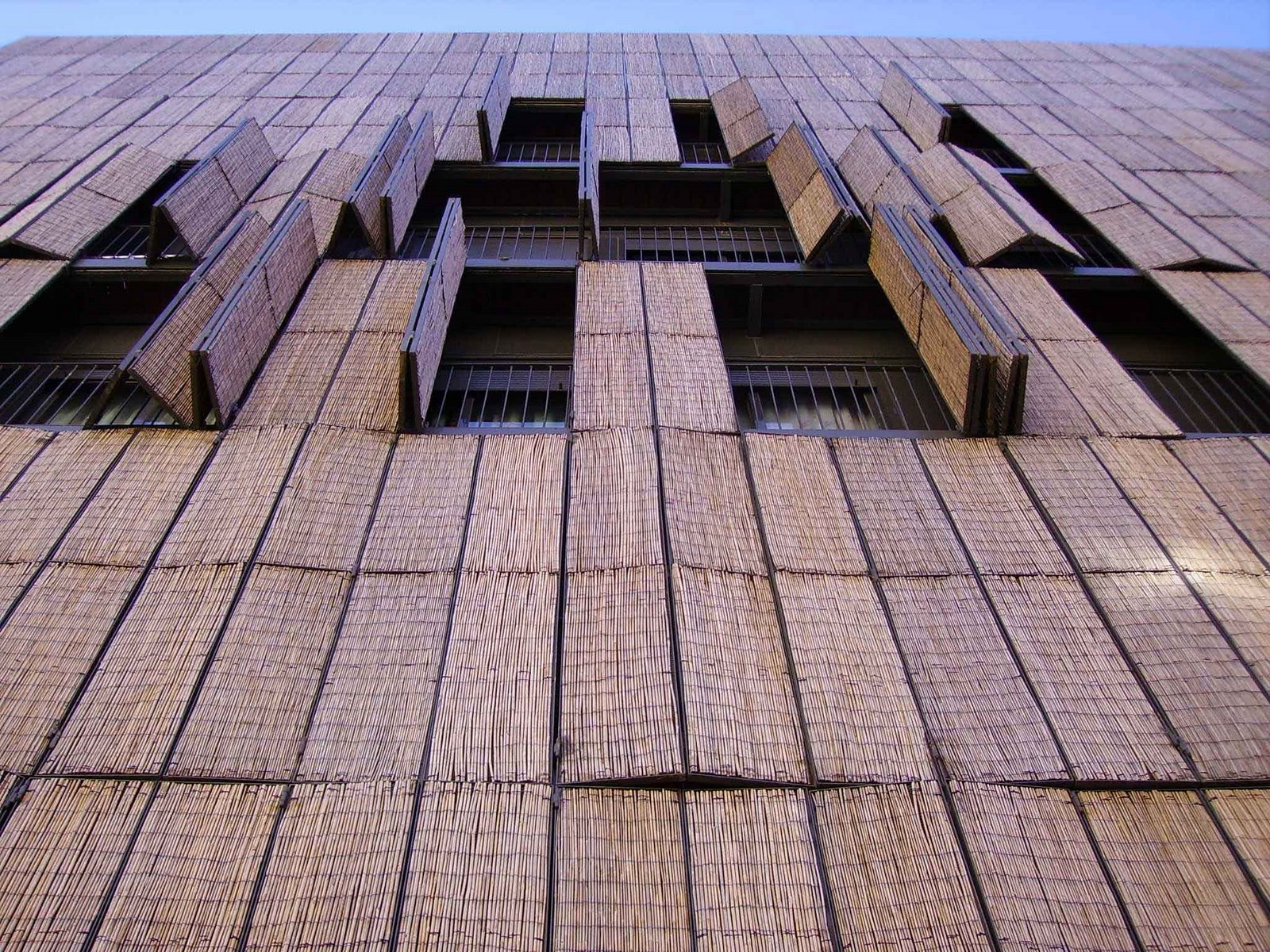 Detail of the façade of Edificio Bambú (literally "Bamboo Building") in Madrid (Spain).